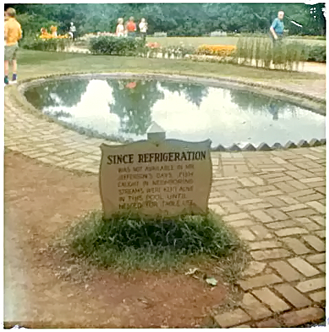 Jefferson fish pond at Monticello. I took photo myself.